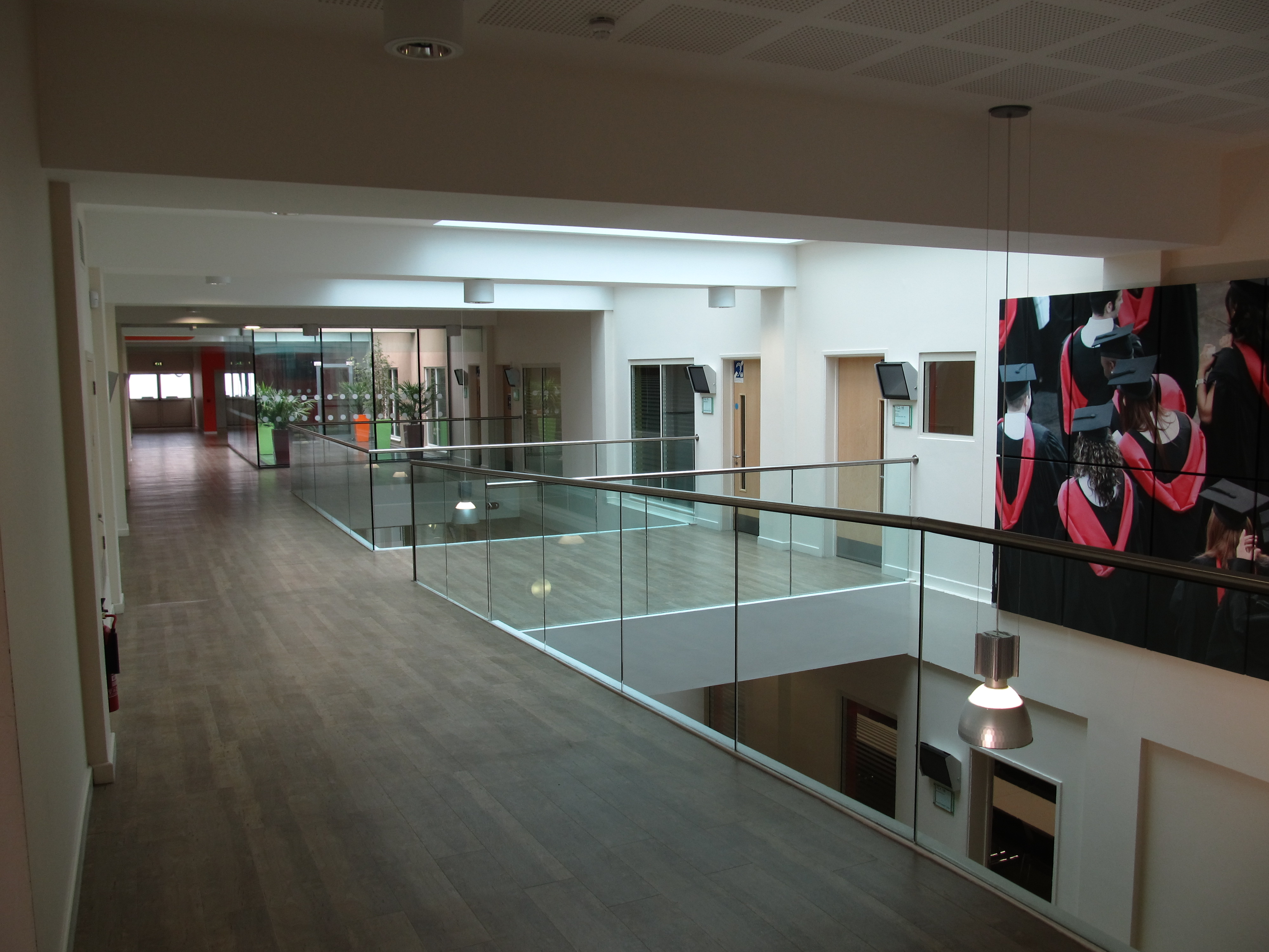 The Tony Rich Teaching Centre interior, University of Essex. This building, on the site of the former central boiler house, was officially opened on 6 October 2010.